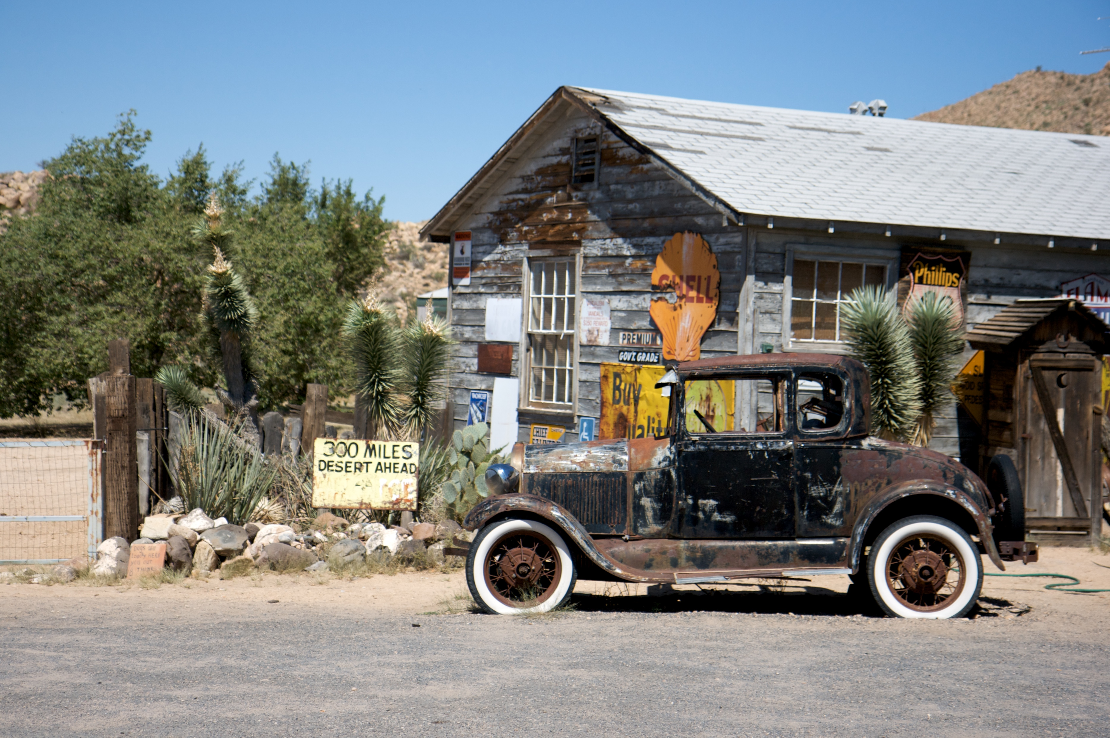 Hackberry General Store in Hackberry, Arizona. Signage claims "300 miles desert ahead".